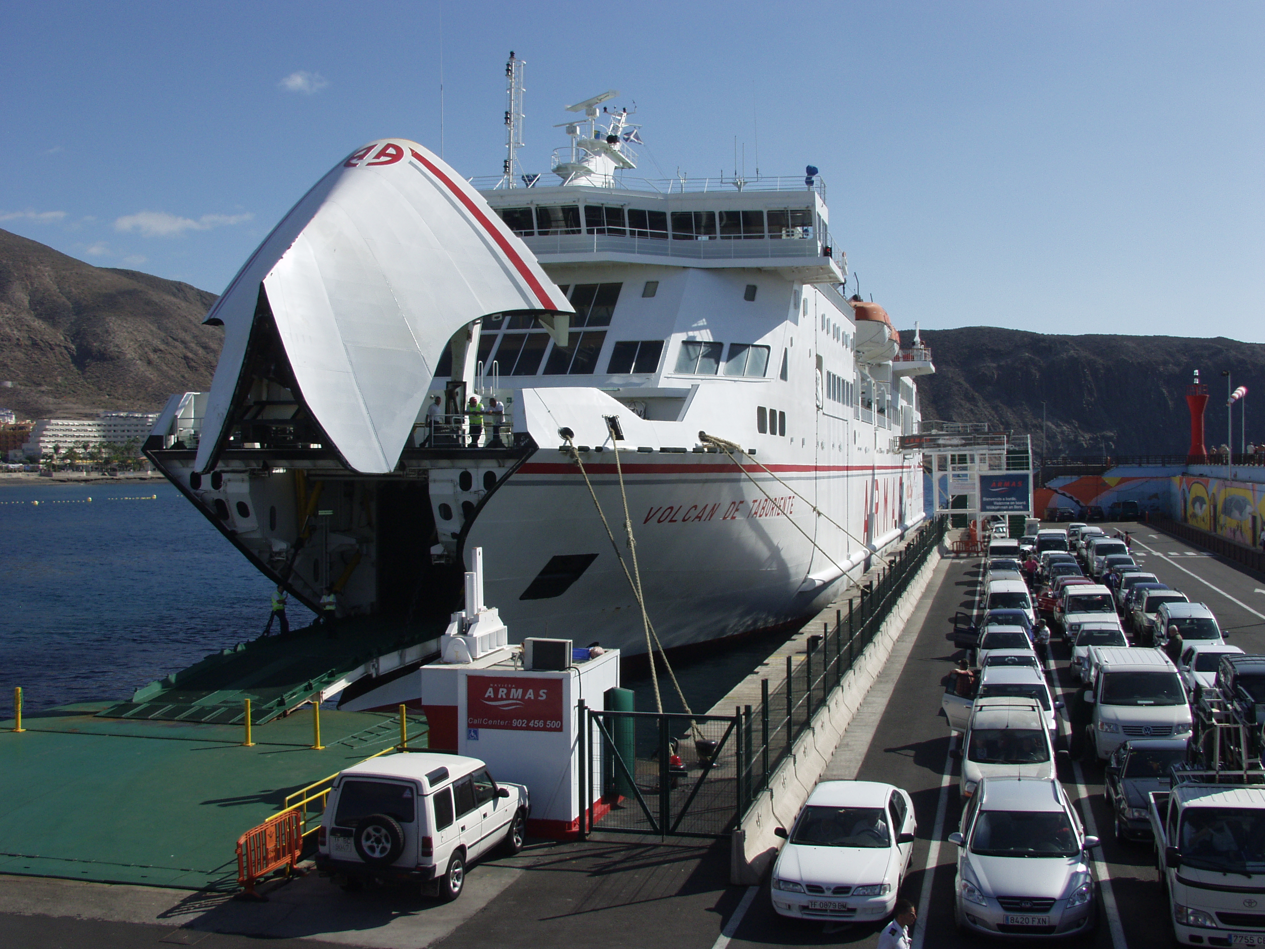 The ferry "Volcan de Taburiente 'in the Port of Los Cristianos, Tenerife, Spain.IMO: 9348558